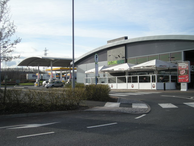 Telford services operated by Welcome Break